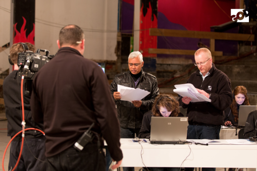 GOD TV broadcasting live from the Revival Prayer Centre in Plymouth